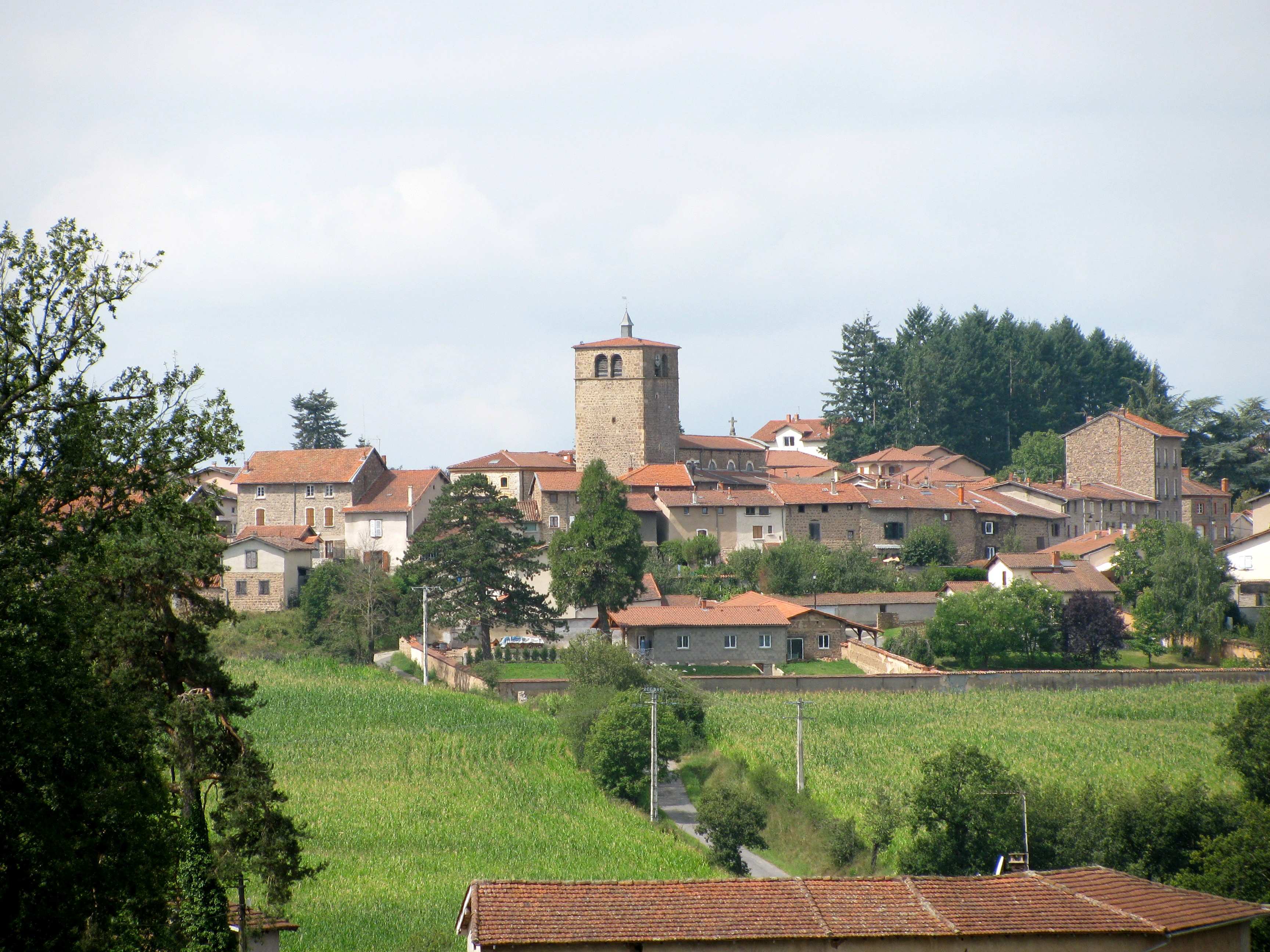 Haute-Rivoire, northeast view from the Thoranche valley. The series of adjoining houses at the foot of the bell tower follows the route of the ancient ramparts